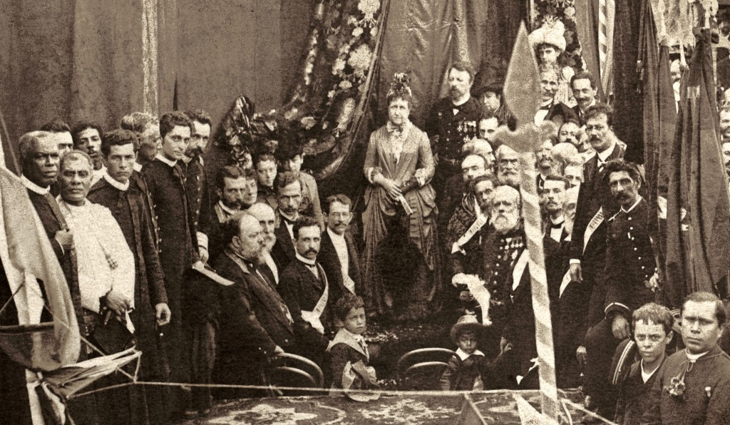 Isabel, Princess Imperial of Brazil; Prince Gaston, Count of Eu; Machado de Assis and others. Mass in celebration of the abolition of slavery in Brazil. Rio de Janeiro, 1888.